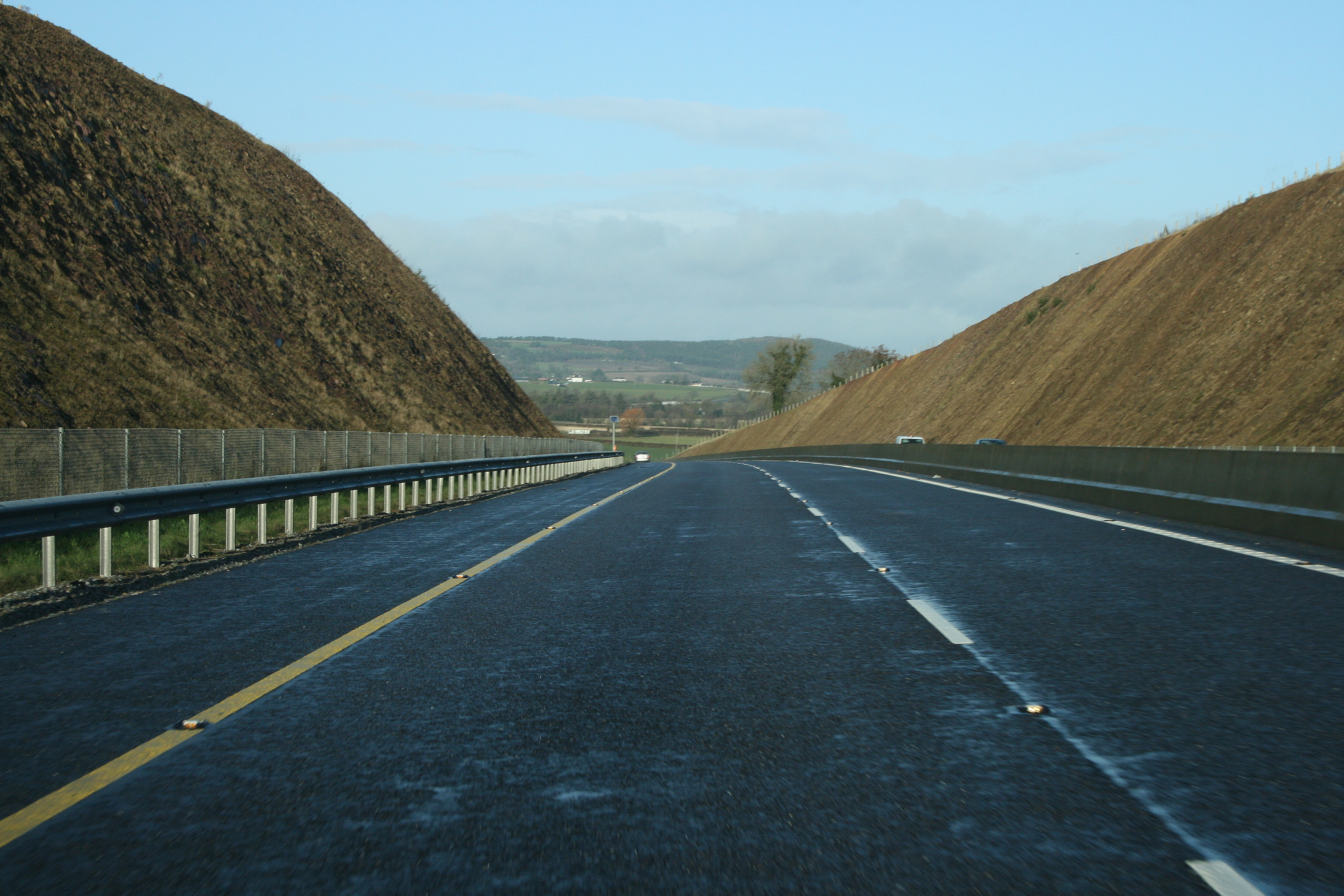 M8 motorway, tolled section – the Fermoy bypass through a cutting in County Cork.